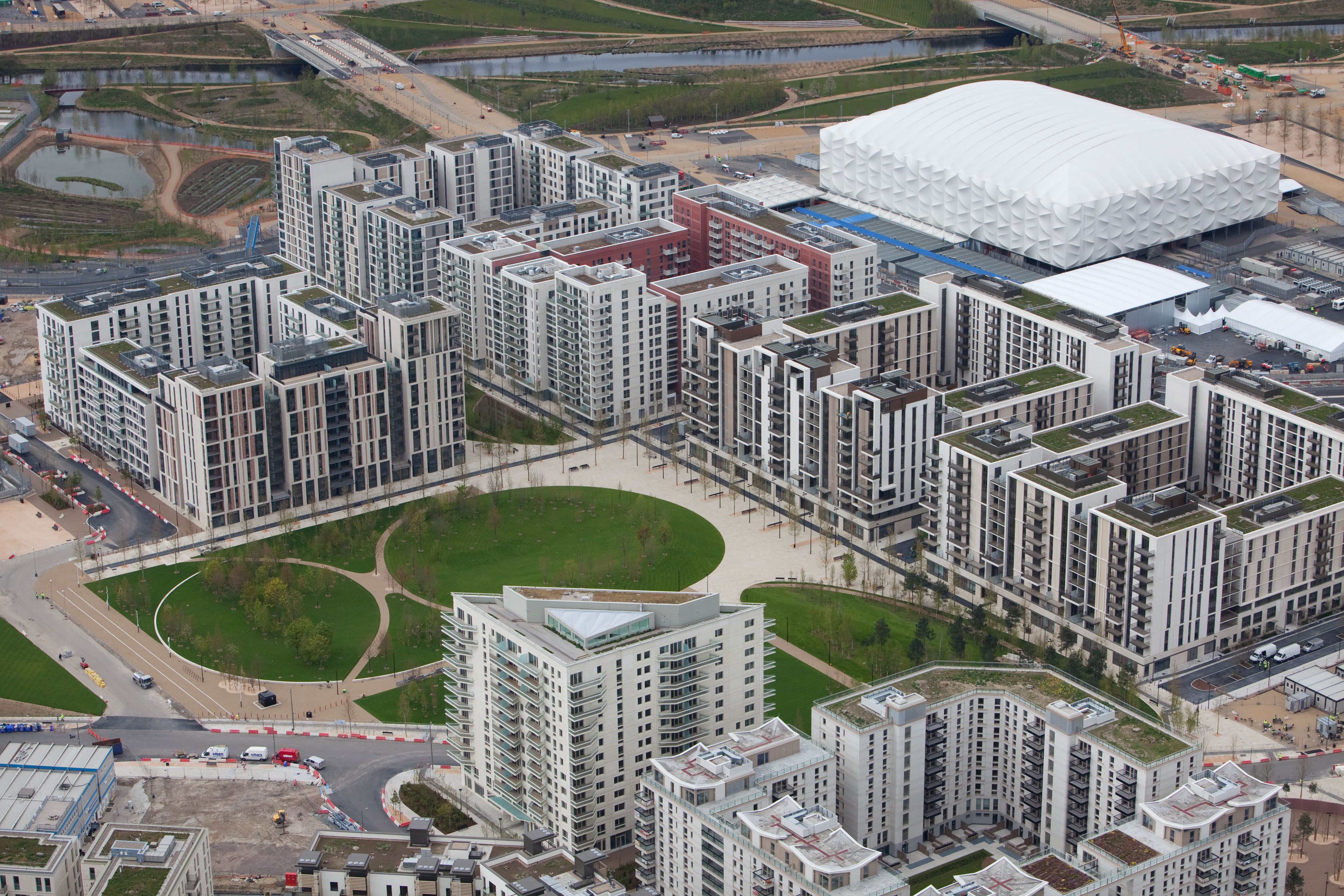 Aerial view of the Olympic Park showing the Olympic and Paralympic Village, Basketball Arena, and restored stream—park lands (top). Picture taken on 16 April 2012.